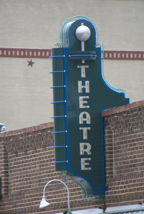 Neon Theater Sign